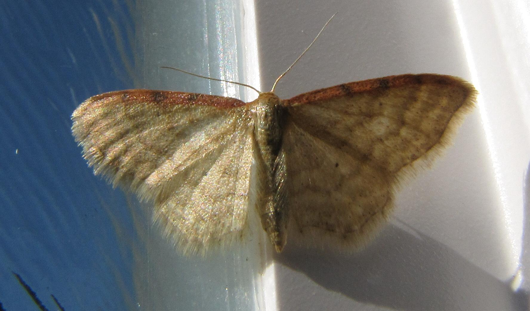 Idaea humuliata (Hufnagel, 1767), Geometridae, Lepidoptera, Rangsdorf, Brandenburg, Germany